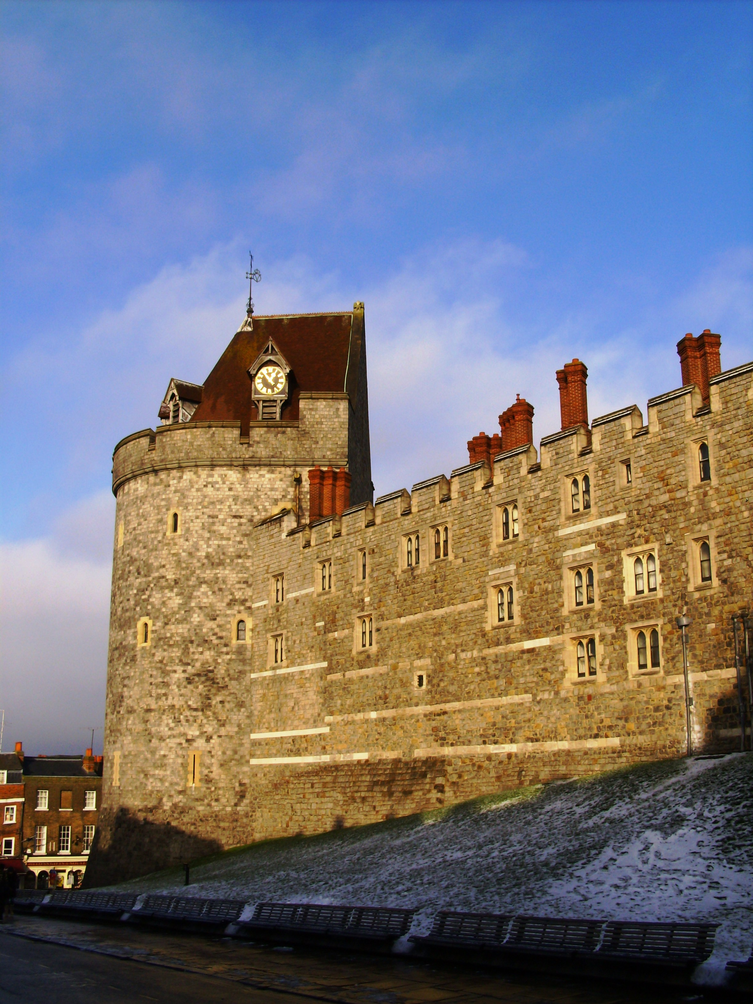 Windsor Castle, Windsor, England: the Curfew Tower, part of the Lower Ward, built under Henry III and remodelled in the 19th century.